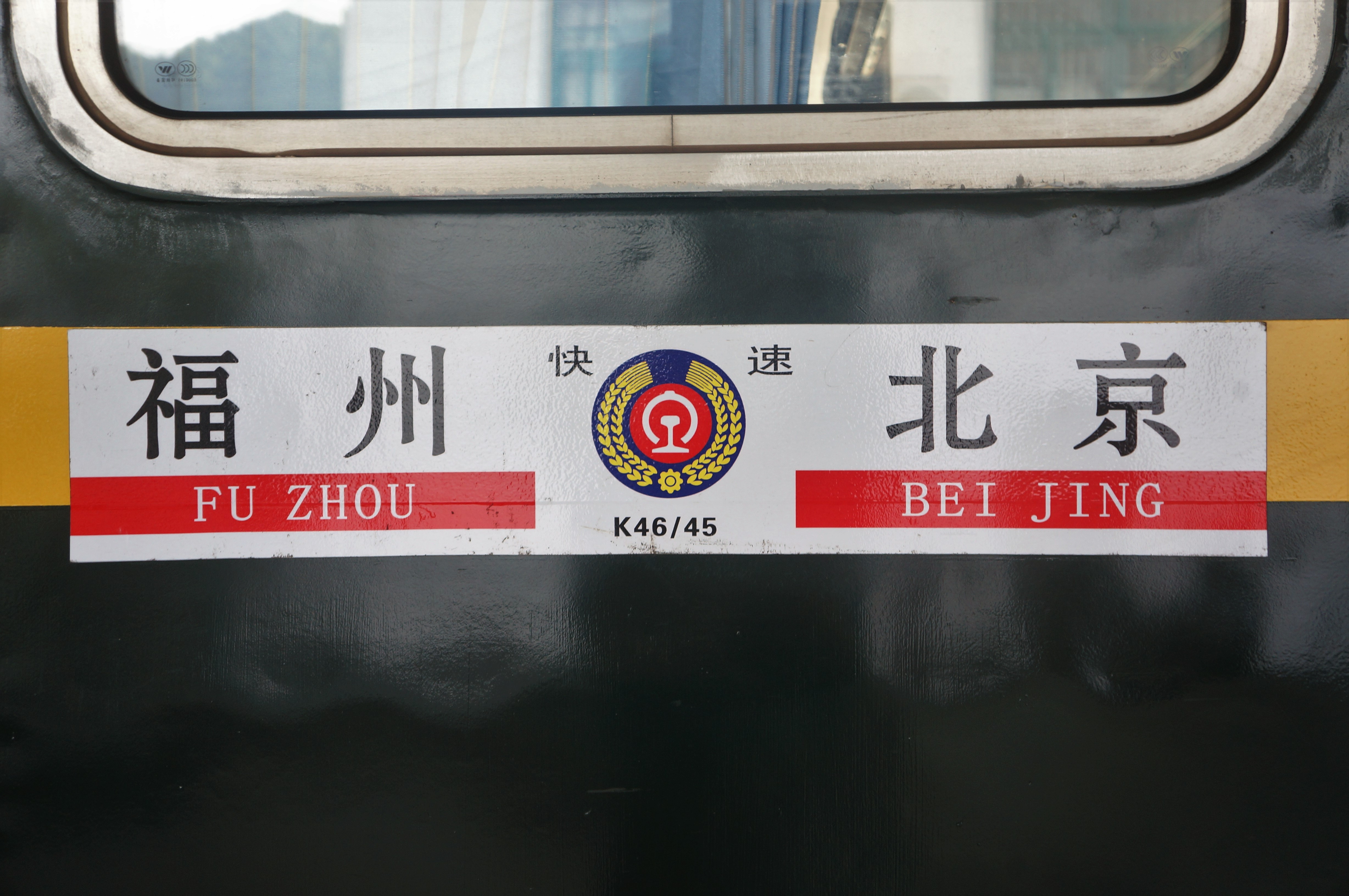 K45 46 infoboard in 201806